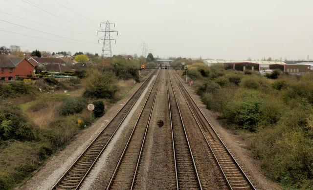 South Wales main railway line heading northeast, Rumney, Cardiff